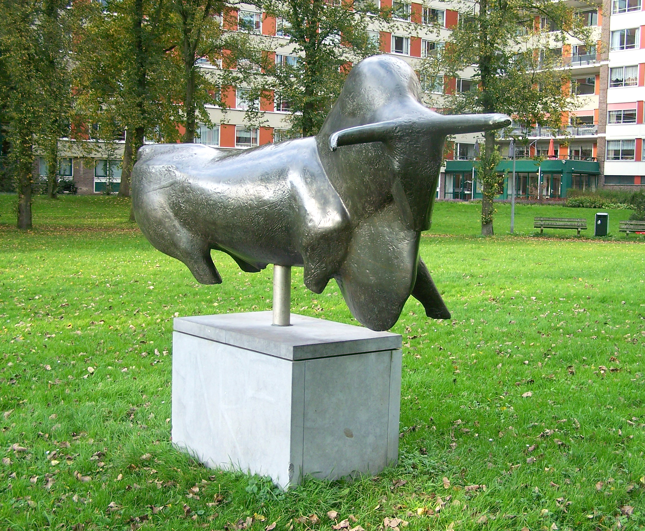 Sculpture "Wending" made by Wien Cobbenhagen in 1988. Placed at Park Vechtzoom in Utrecht.